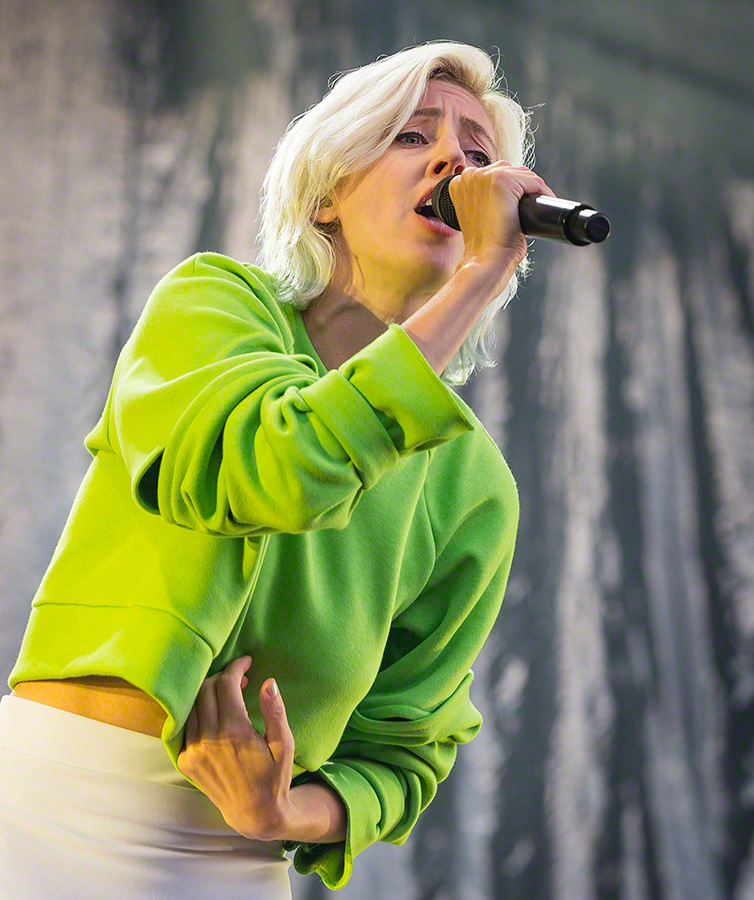 Veronica Maggio with the backing band at the main stage during Stavernfestivalen in Stavern on 08. July 2016.